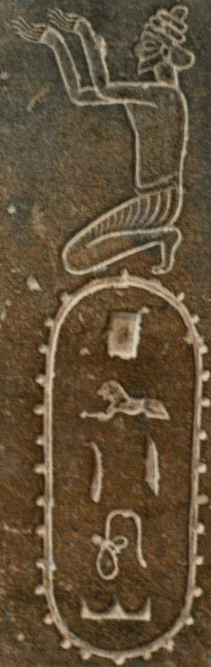 Parthia (𓊪𓃭𓍘𓇋𓍯, P-rw-t-i-wꜢ) on the Egyptian statue of Darius I